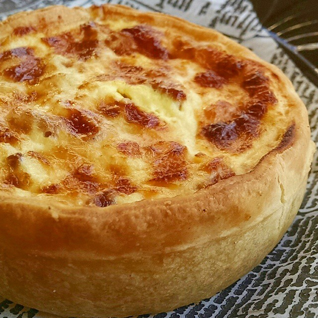 Ham & cheese quiche at Jolly Holiday Bakery at Disneyland